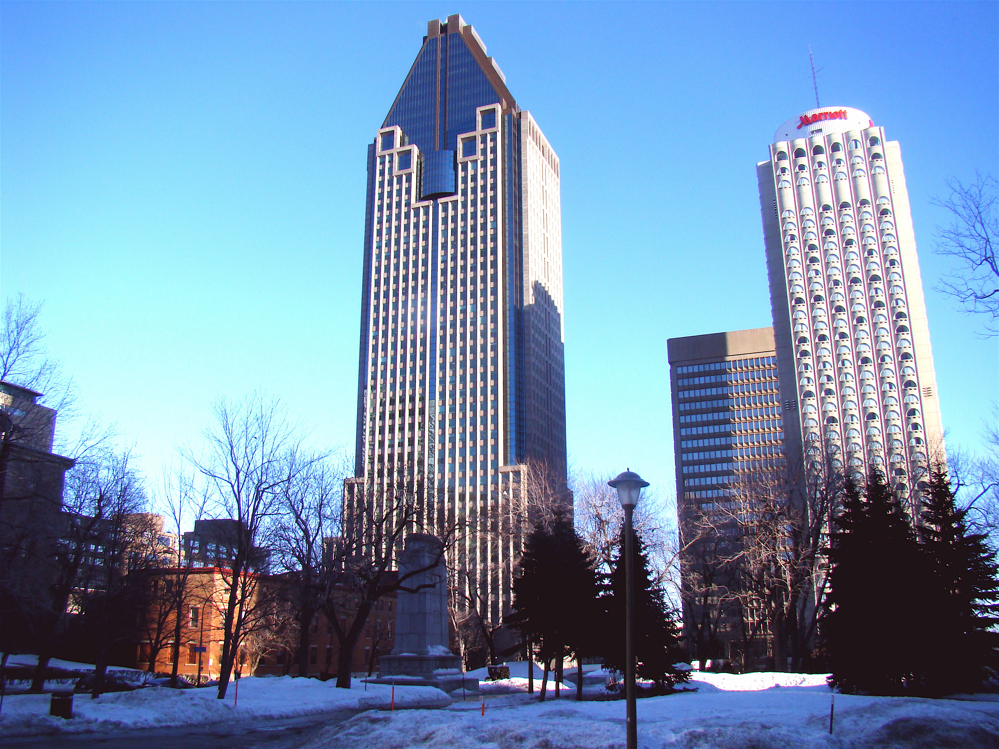 Center portion of Place du Canada